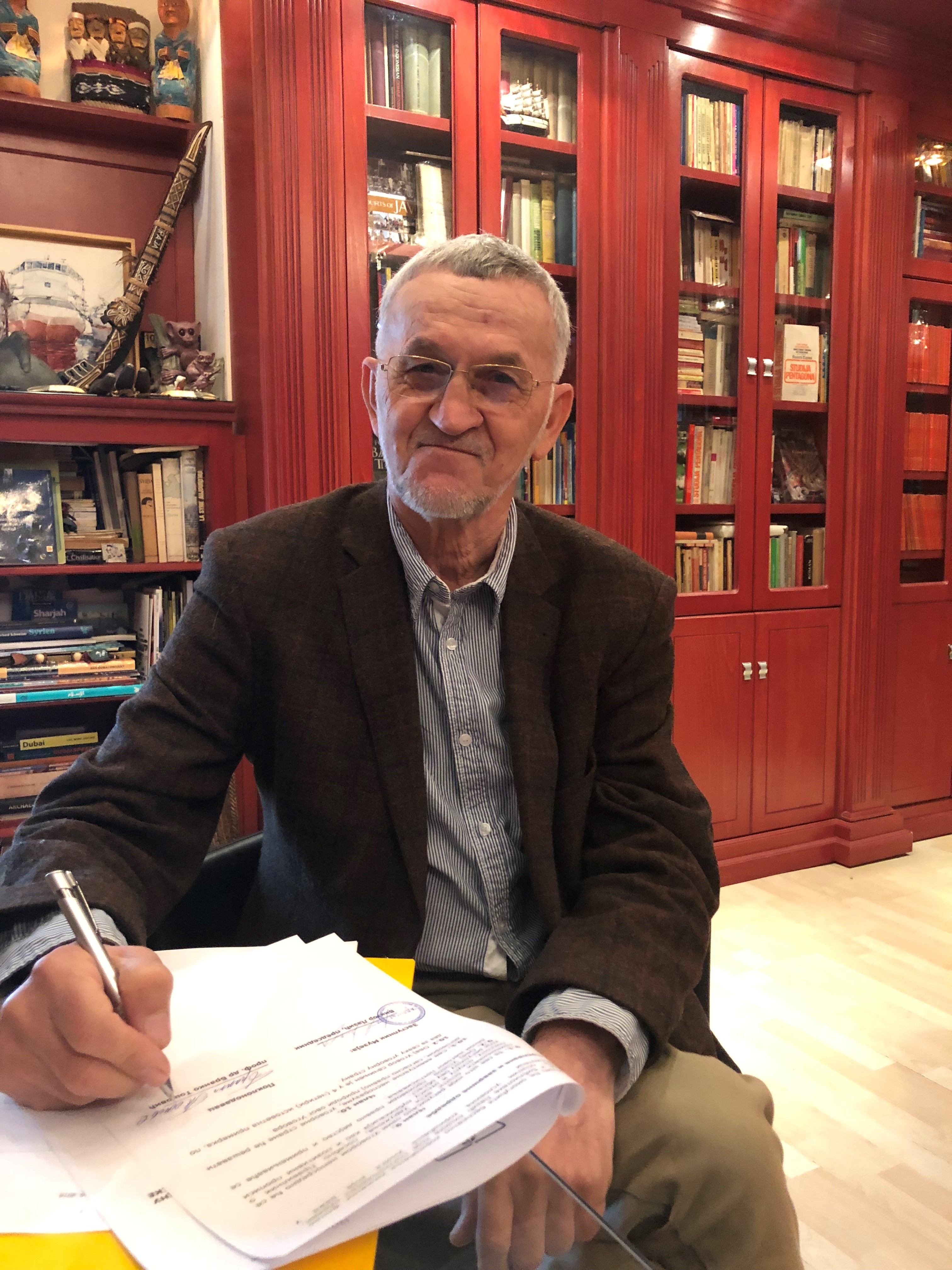 Branko Tošović in the Museum of Book and Travel, in the Society for Culture, Art and International Cooperation Adligat in Belgrade, Serbia Српски (ћирилица): Бранко Тошовић у Музеју књиге и путовања Удружењa „Адлигат" приликом потписивања уговора о легату у марту 2019. године.